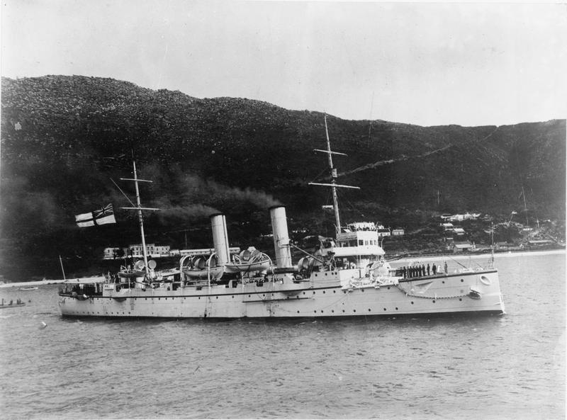 The Royal Navy 1899 - 1902 HMS FORTE leaving Simons Town for the West Coast of Africa c. 1900.